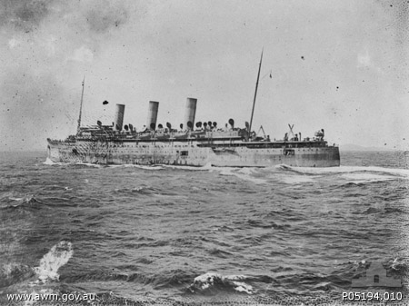 AWM caption:The ancillary Cruiser HMS Empress of Russia cruising in Red Sea. Perry Raymond Button (b 1893 - d 1977) a member of the British Merchant Navy crew aboard the troop transport HMAT Armadale (A26) watched as the HMS Empress of Russia captured a Turkish dhow which had been gun-running.